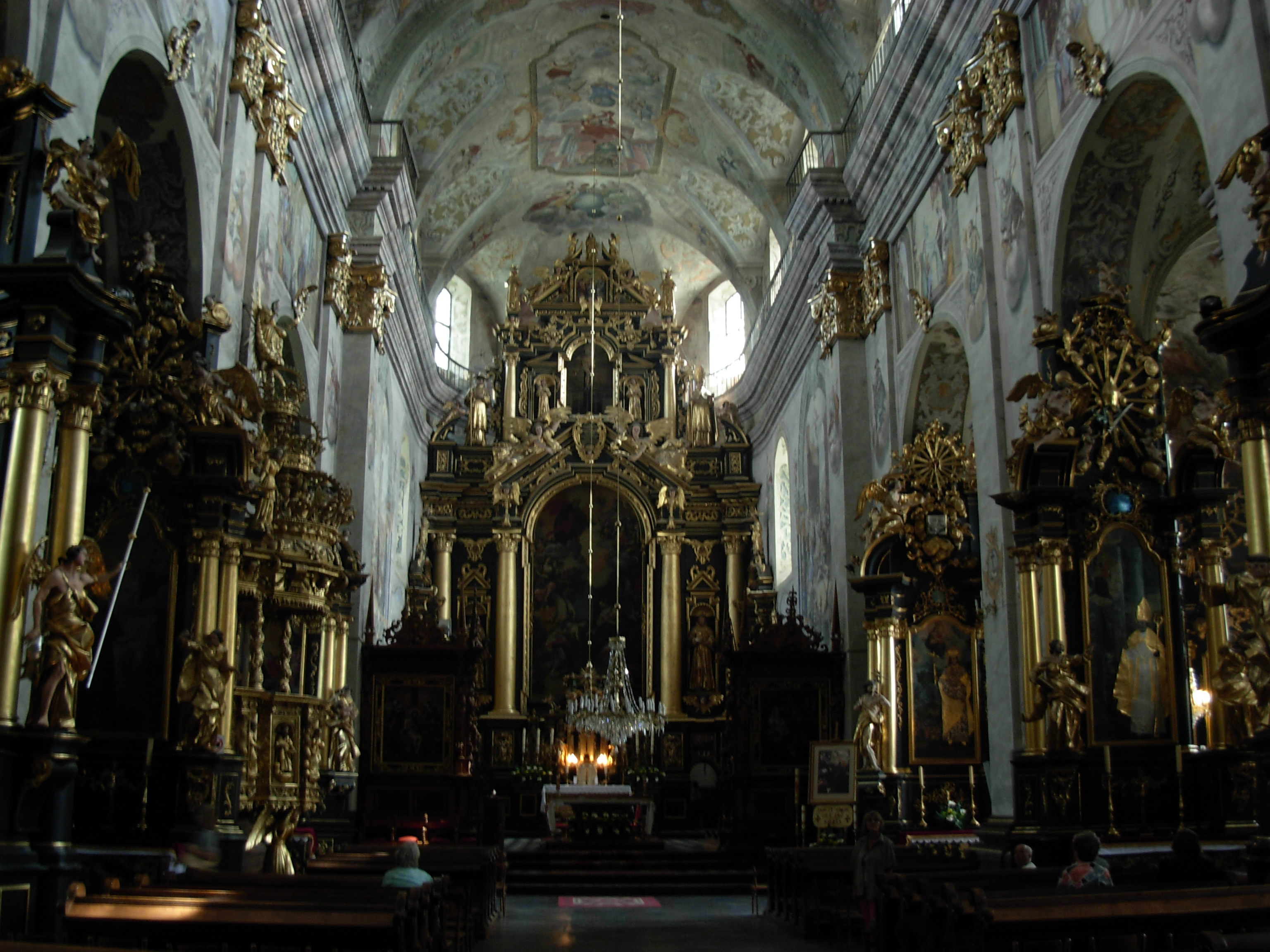 Bernardine Monastery in Leżajsk, Poland.